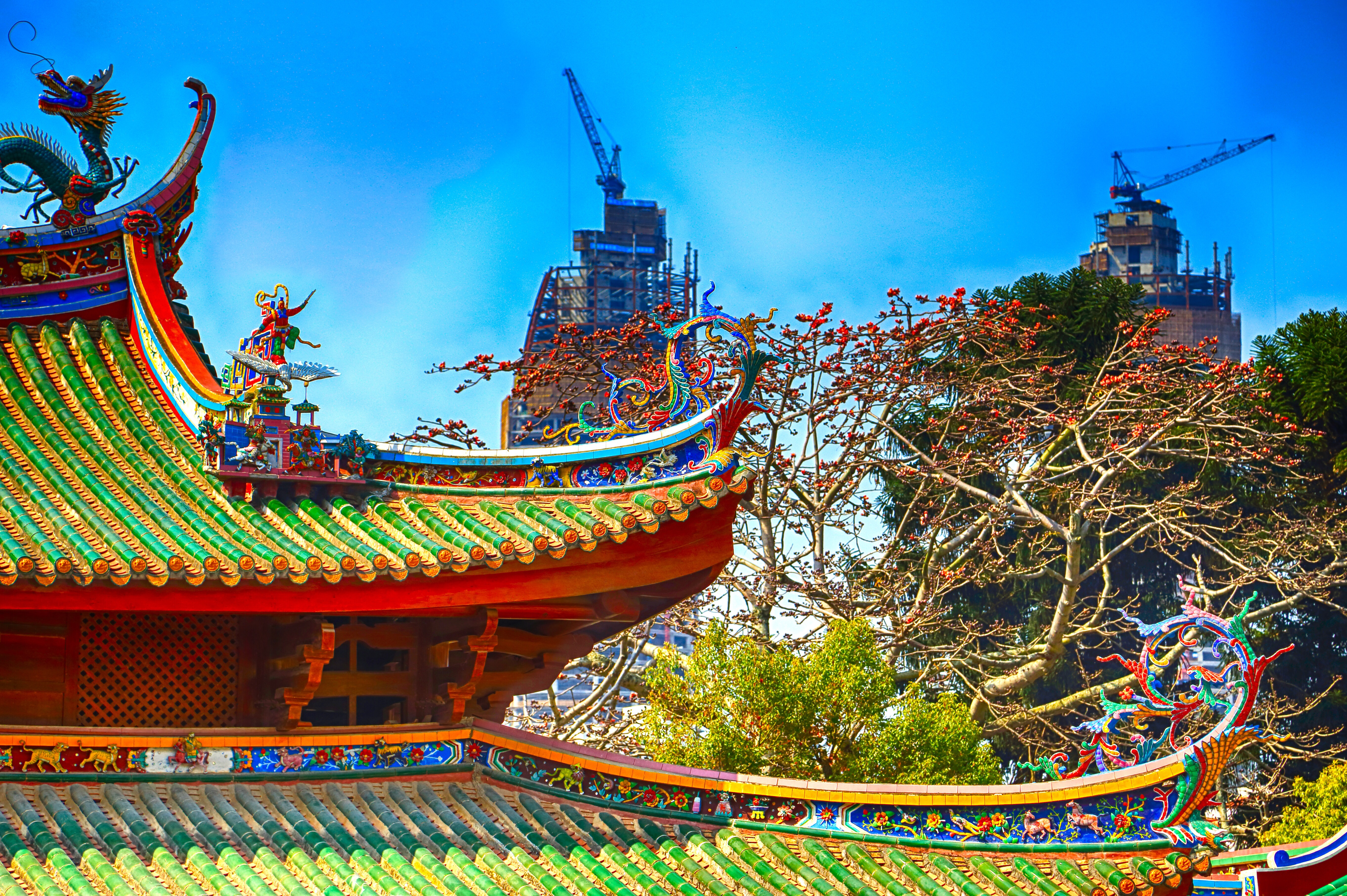 Nanputuo Temple, Xiamen, China